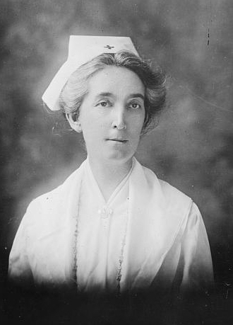 A black-and-white, head-and-shoulders photograph portrait of a white woman wearing a nurse's cap and white clothes.